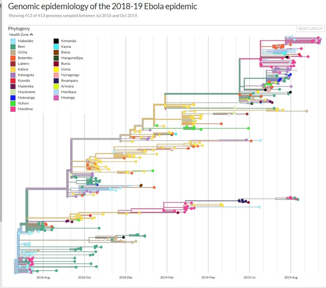 it shows the current Genomic epidemiology of the 2018-19 Ebola epidemic